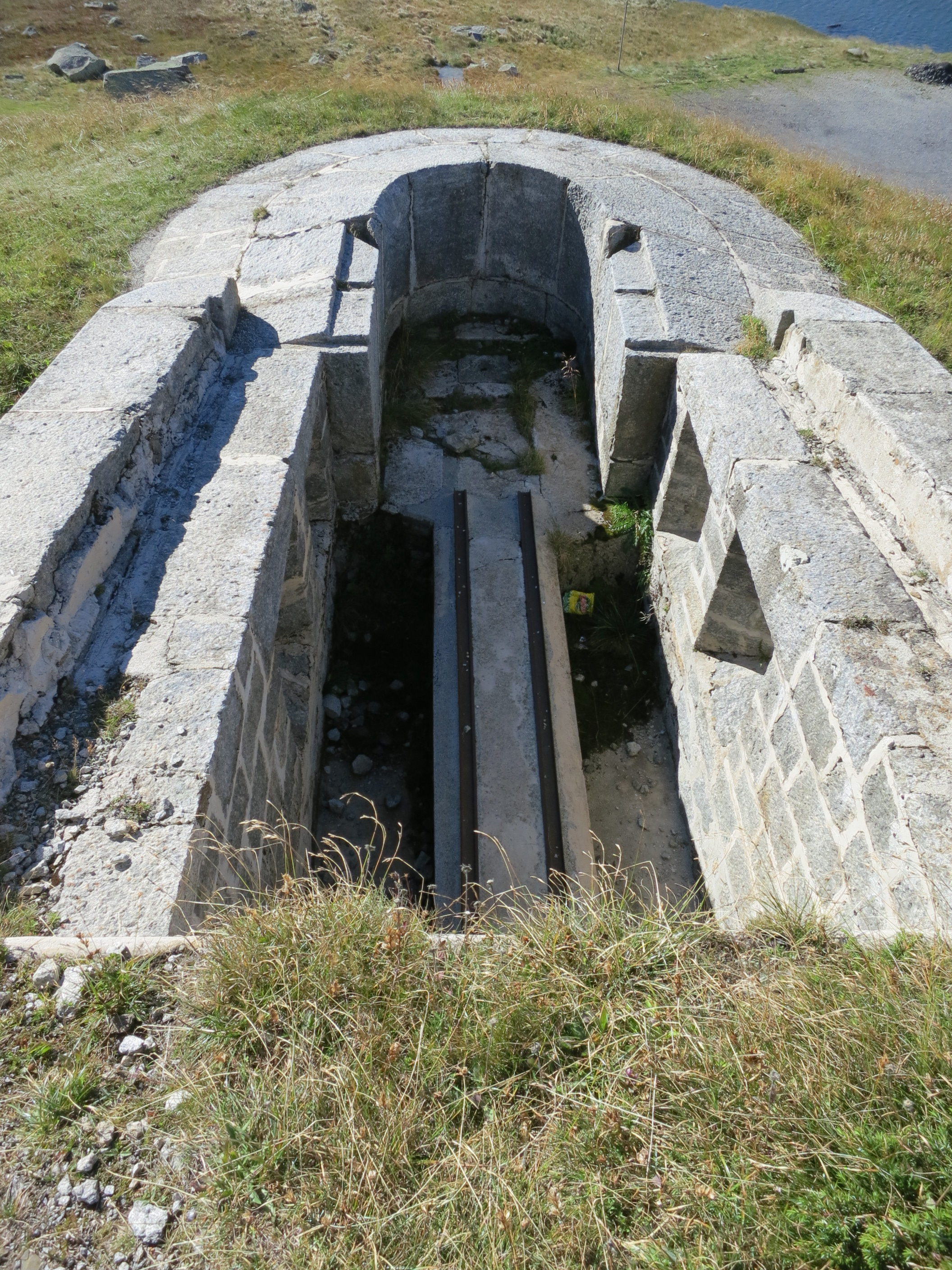 Fort Hospiz, Airolo, Schweiz